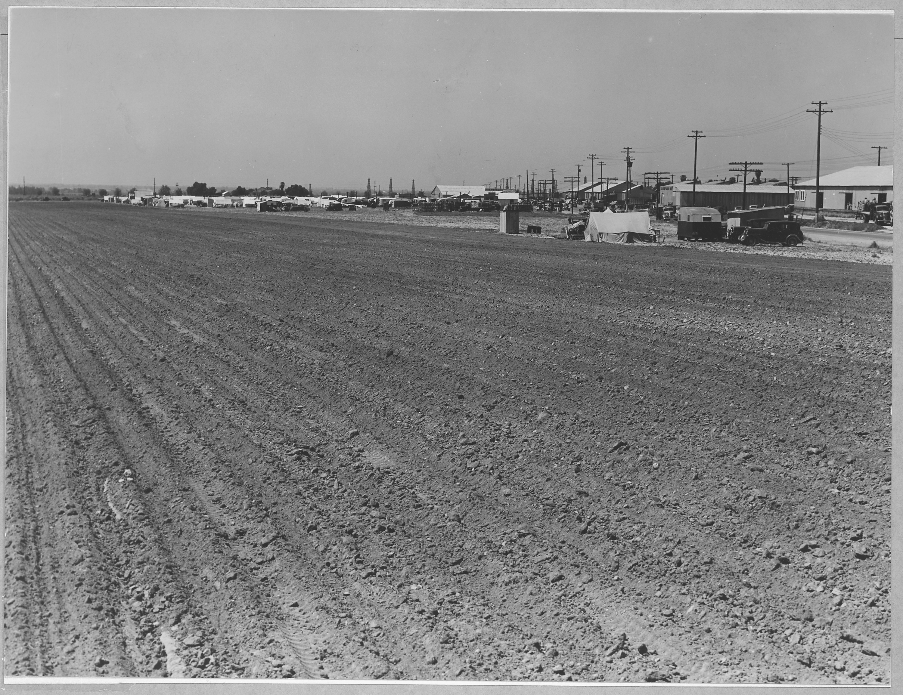 Scope and content: Full caption reads as follows: Edison, Kern County, California. The town of Edison, a potato town in a nearly developing large-scale potato district. Shows camp for migratory potato pickers across field of potatoes already picked. Shows packing sheds along railroad tracks. 27,250 acres of potatoes were planted in Kern County in 1940. Over 200 families encamped in tents and trailers during this potato season, but not getting much work in the fields because of "locals". By "locals" are meant ex-migratory workers who are now settling in this district in shacktowns and auto camps, etc., and who are living on relief during slack seasons. Last year there was a large squatter camp on this site. This year because of the count ordinance prohibiting squatter camps, the pickers pay $6 per month for the right to pitch their tent and $8 per month for trailer space to a man who has leased the ground as an auto court.